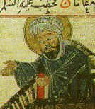 Close-up of a medieval-era drawing showing Mohammed preaching, along with a Christian-style halo.